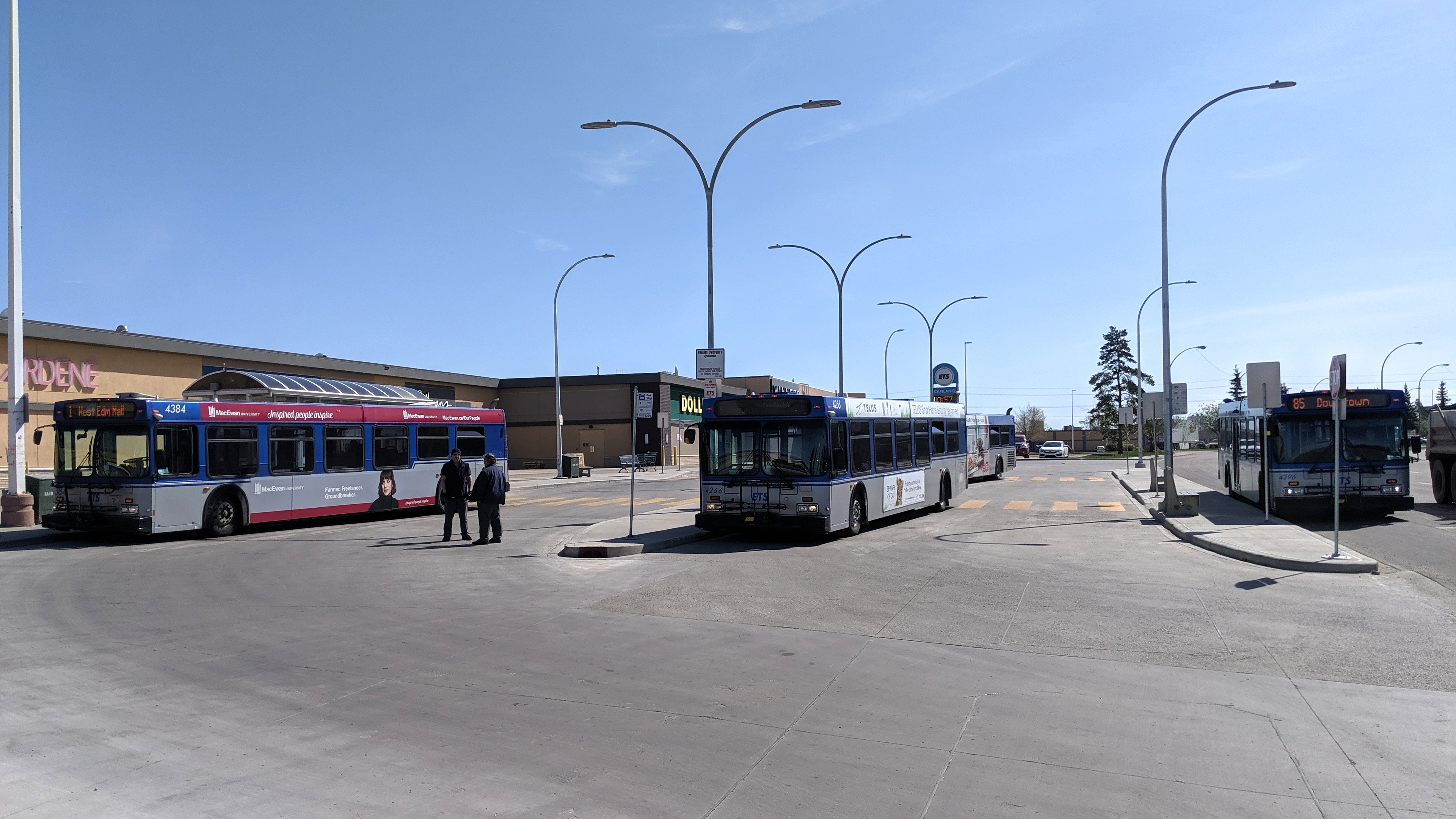 Looking east at the Capilano Transit Centre.